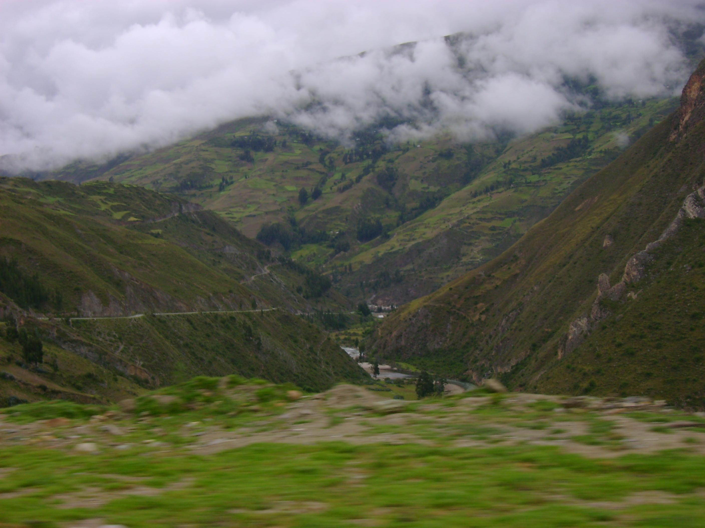 Vizcarra and Maranon rivers.